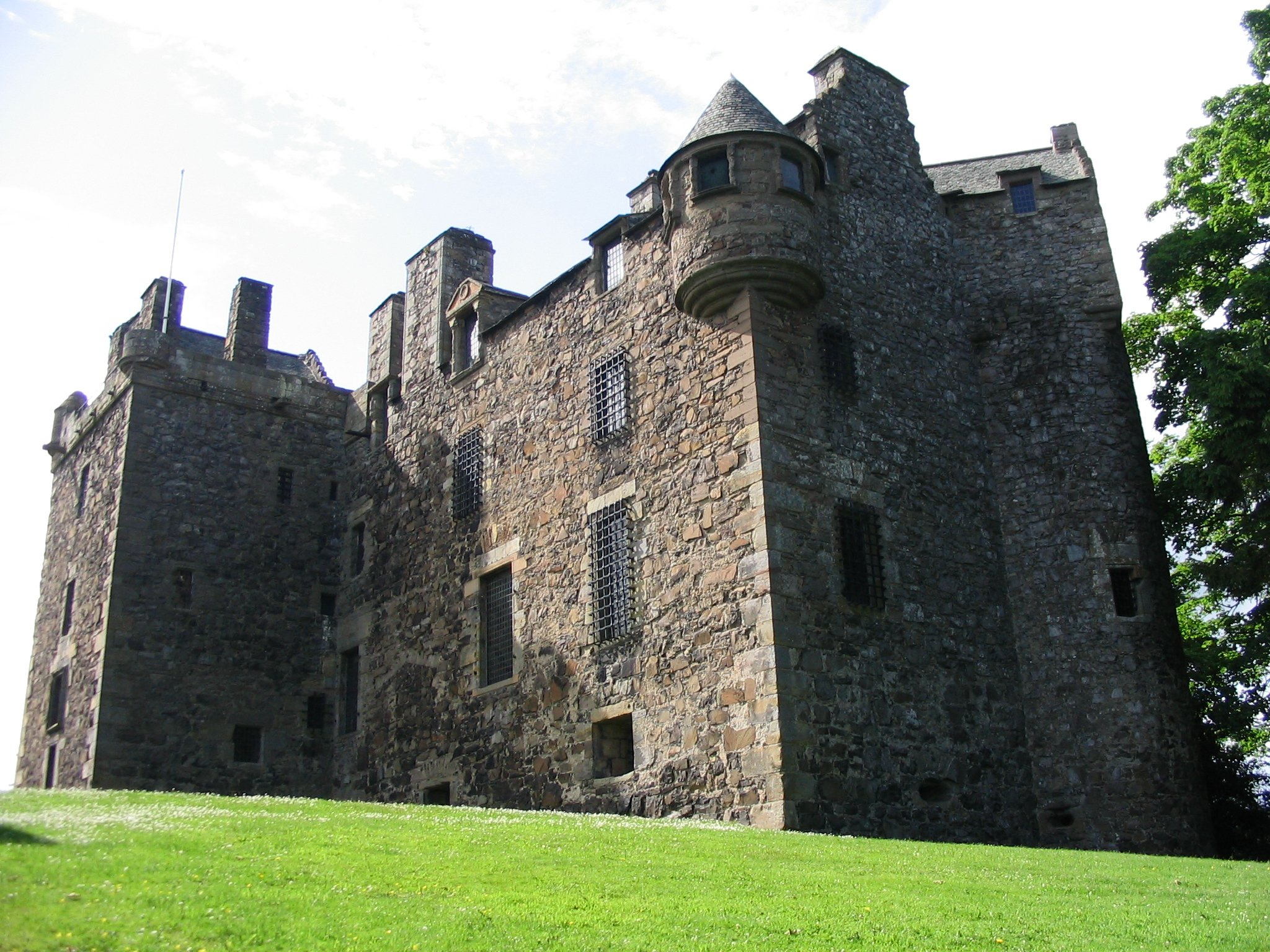 This is a photograph of Elcho castle. I took this photograph.